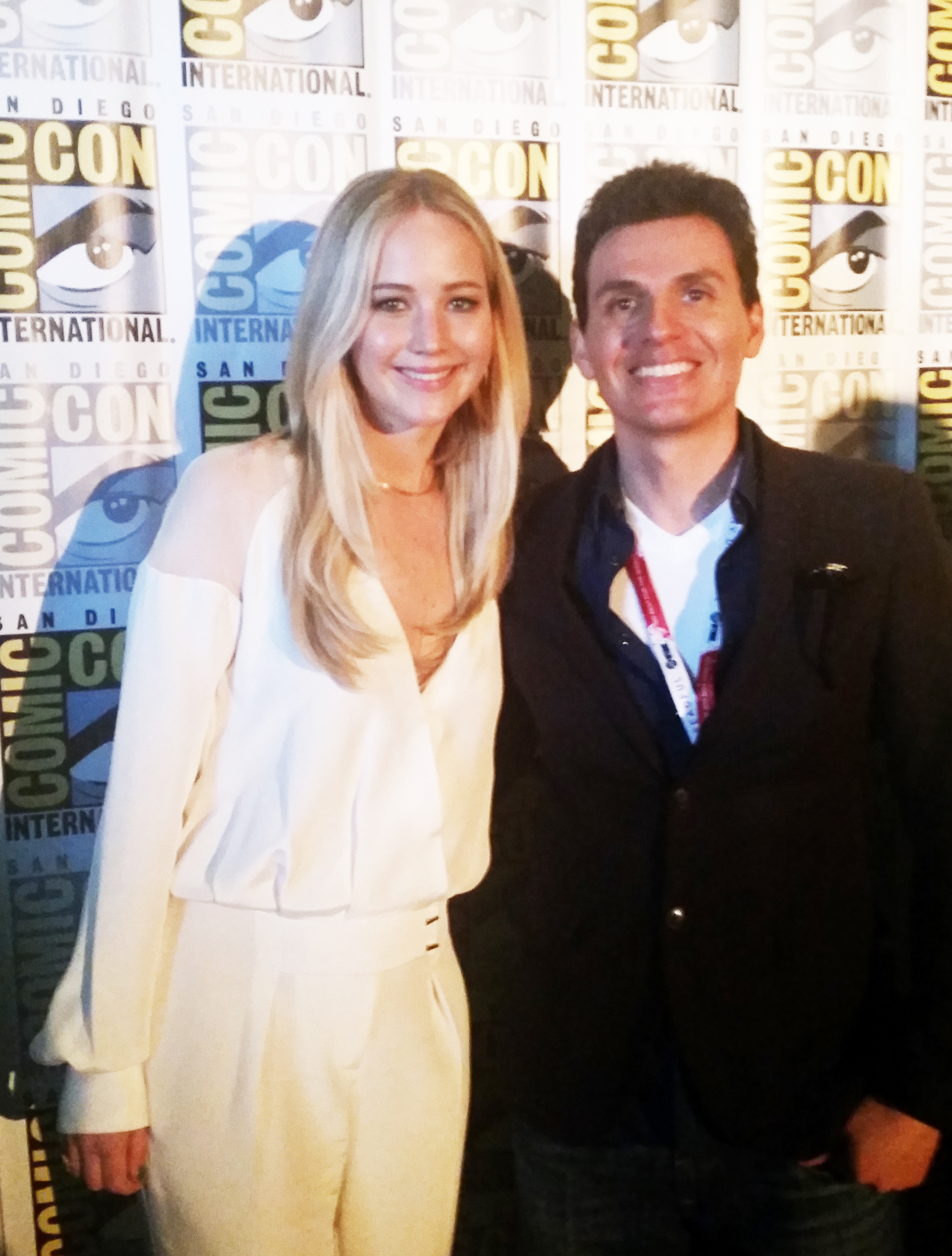 Actor Jennifer Lawrence and writer/director Andres Useche